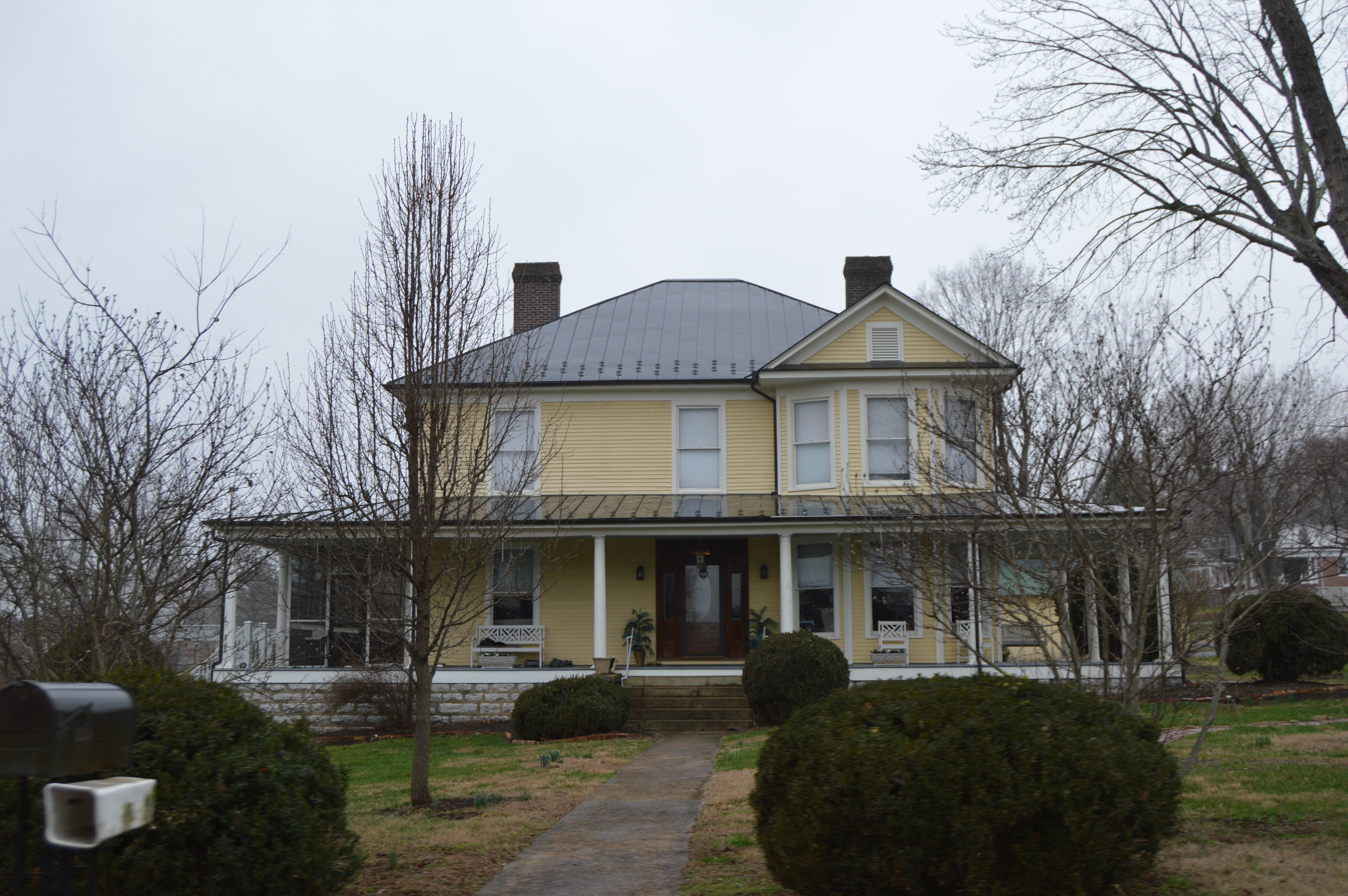 Front of the Stephen B. Quillen House, located at 149 Church Street in Lebanon, Virginia, United States. Built in 1912, it is listed on the National Register of Historic Places.